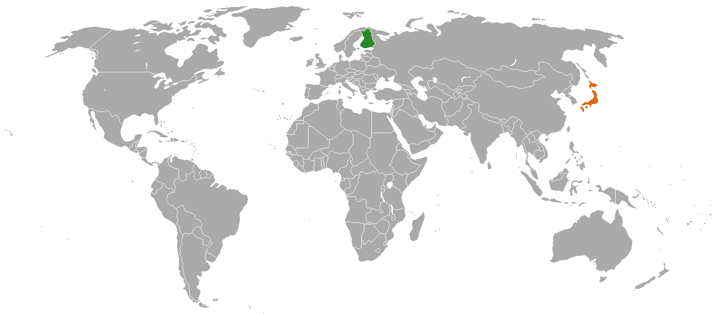 Bilateral locator map of Finland and Japan.